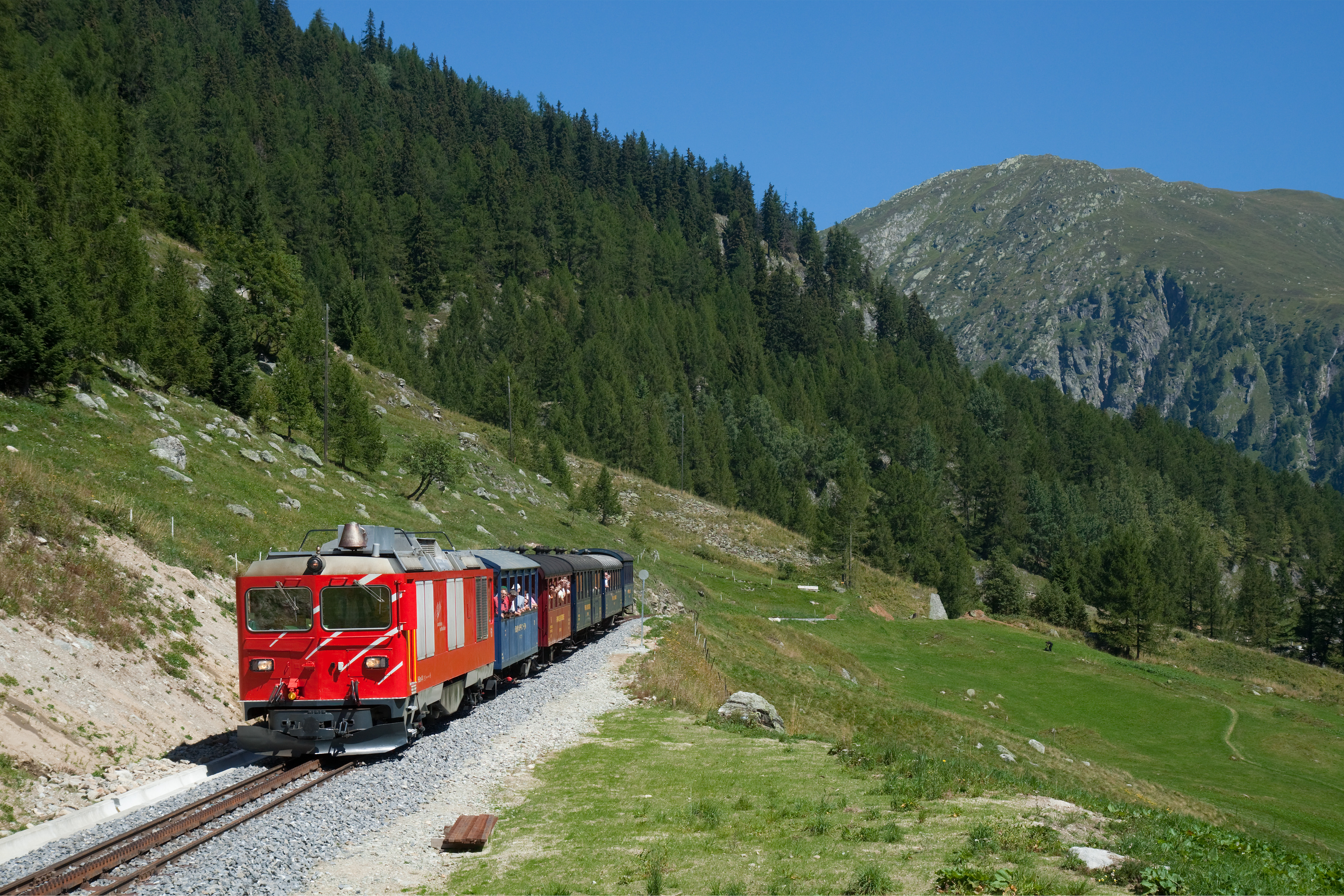 One of the two HGm 4/4 rack-and-adhesion diesel engines of the Matterhorn–Gotthard-Bahn on duty on the Dampfbahn Furka-Bergstrecke line, just before arriving at Oberwald. The HGm 4/4 are the only large diesel engines in Switzerland that are used for passenger trains from time to time.